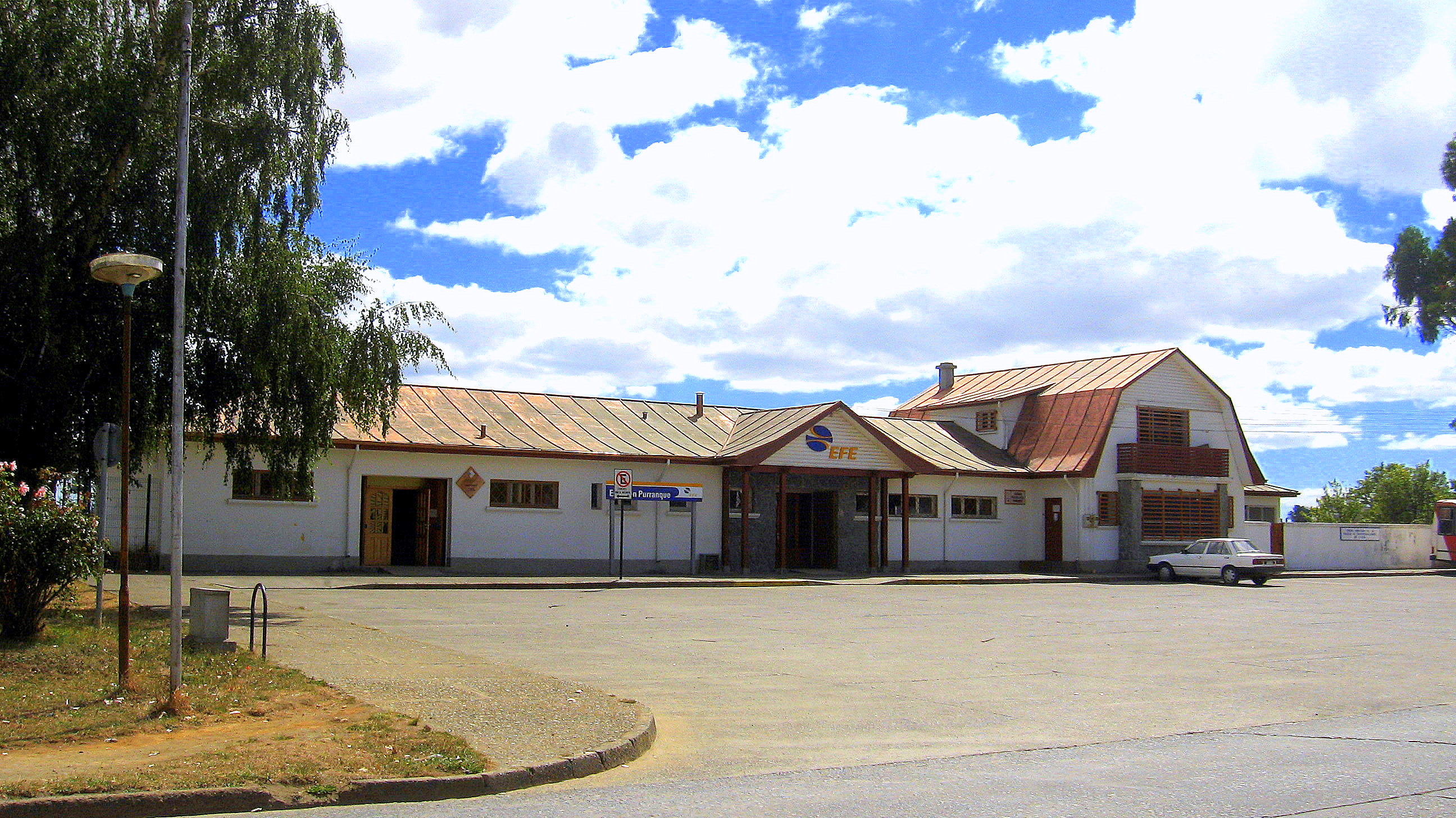 Facade of Railway Station of Purranque city, on Los Lagos Region, Chile.